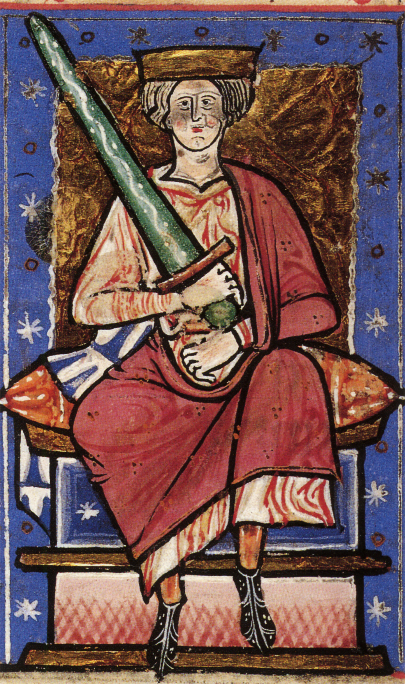 This image is a JPEG version of the original PNG image at File: Ethelred the Unready.png. Generally, this JPEG version should be used when displaying the file from Commons, in order to reduce the file size of thumbnail images. However, any edits to the image should be based on the original PNG version in order to prevent generation loss, and both versions should be updated. Do not make edits based on this version. See here for more information. Ethelred the Unready, circa 968-1016. Illuminated manuscript, The Chronicle of Abindon, c.1220. MS Cott. Claude B.VI folio 87, verso, The British Library.